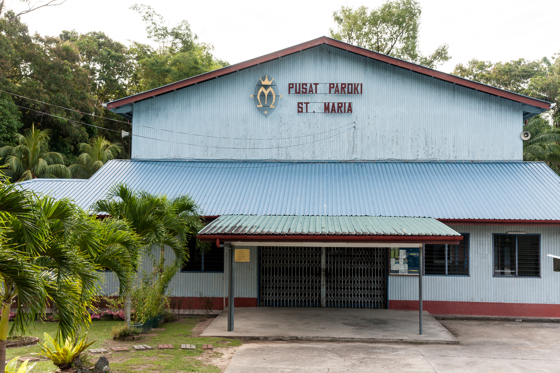 Sandakan, Sabah: St. Mary's Parish Center